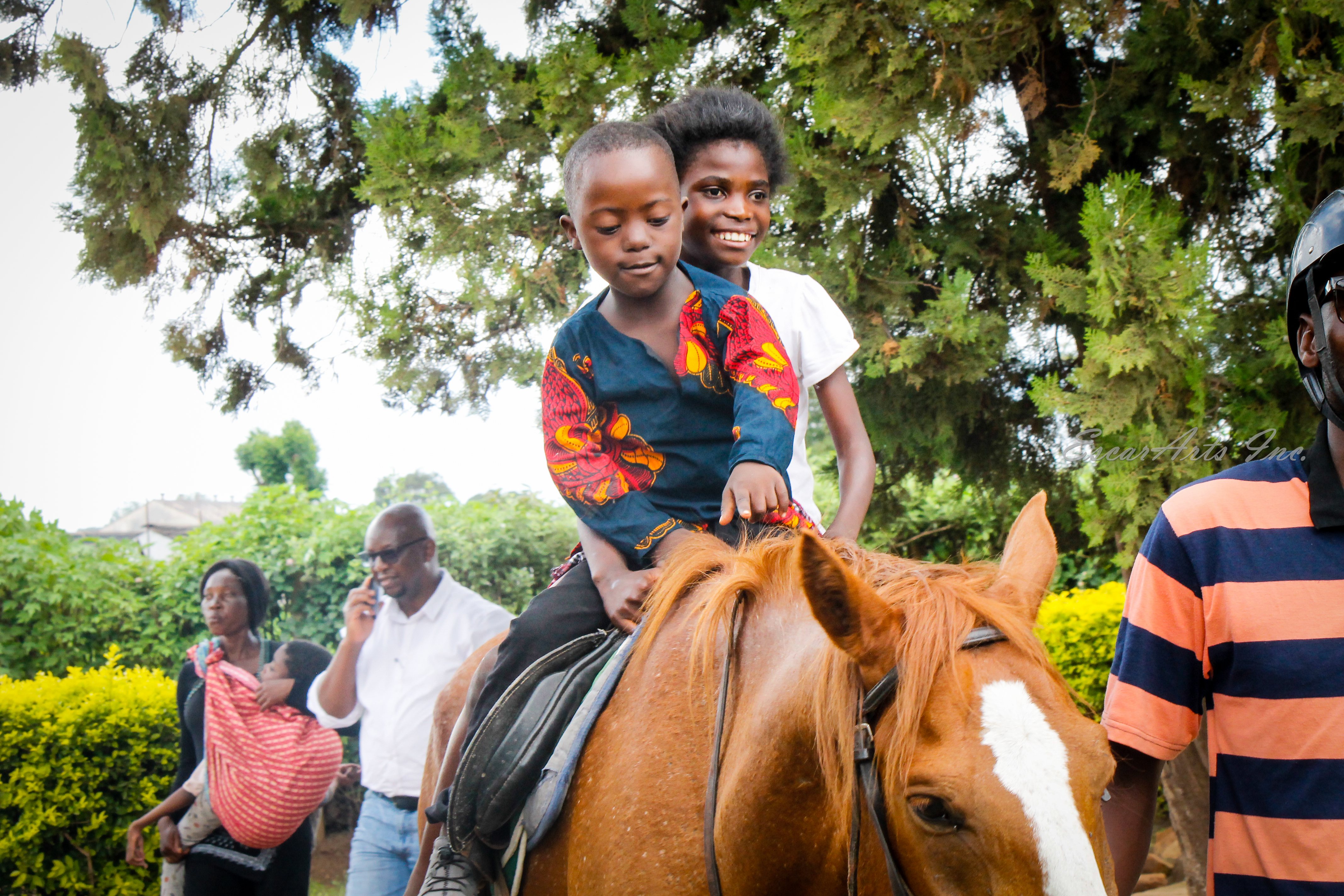 This is an image with the theme "Africa on the Move or Transport" from: Zambia